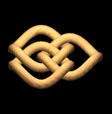 Side view of three-dimensional shapes linked in the Borromean rings configuration which are intended to look like perfect circles when viewed from the top.